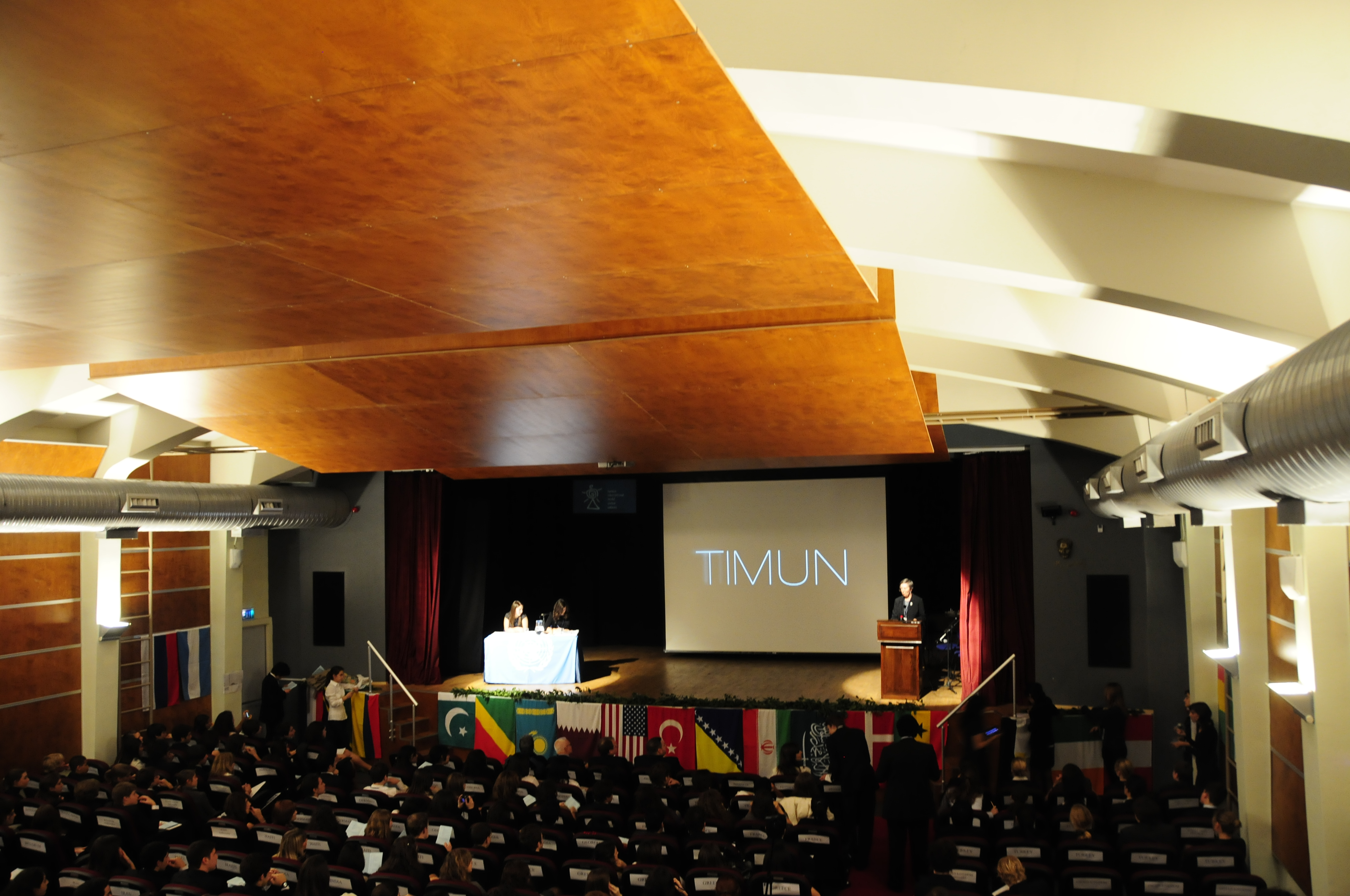 A photo taken in TIMUN'08 Opening Ceremony which was held on 27 November 2008.